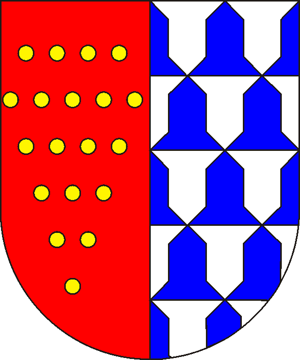 coats of arms of the counts of Bentheim (1421) 1: county of Bentheim; 2: lordship of Götterswick